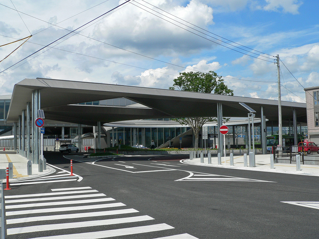 JR_Ryuo_Station.